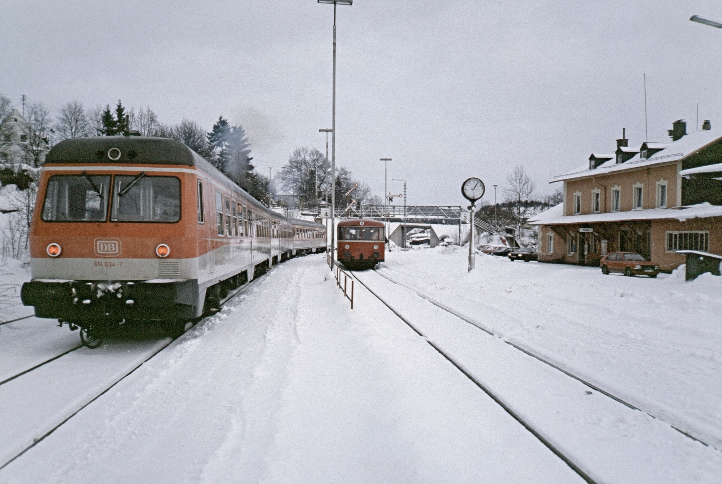 Selbitz railway station